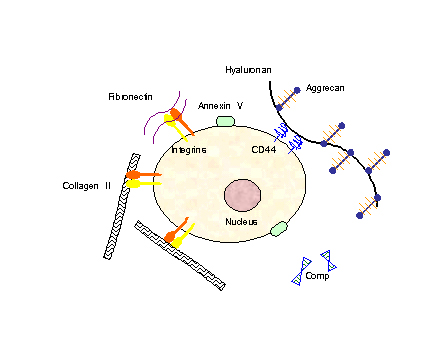 chondrocyte cell surface receptors